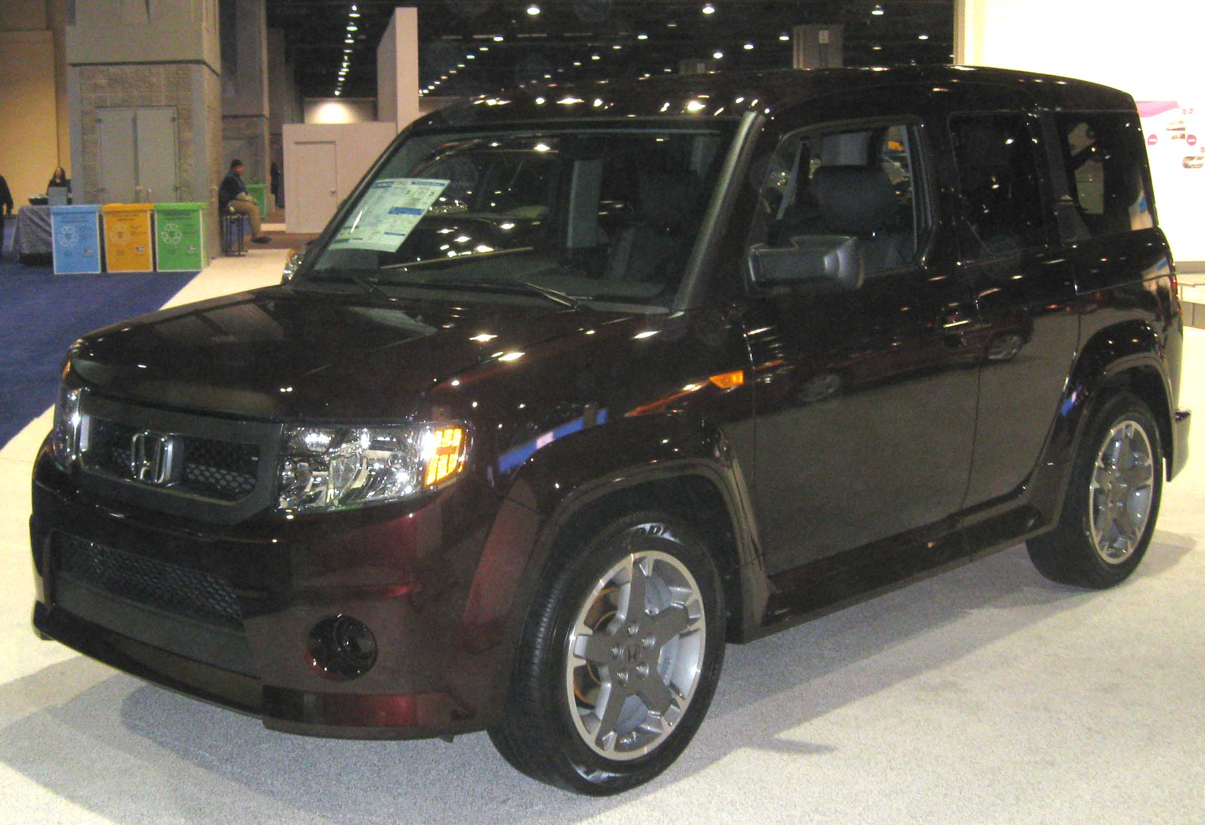 2009 Honda Element photographed at the 2009 Washington DC Auto Show.